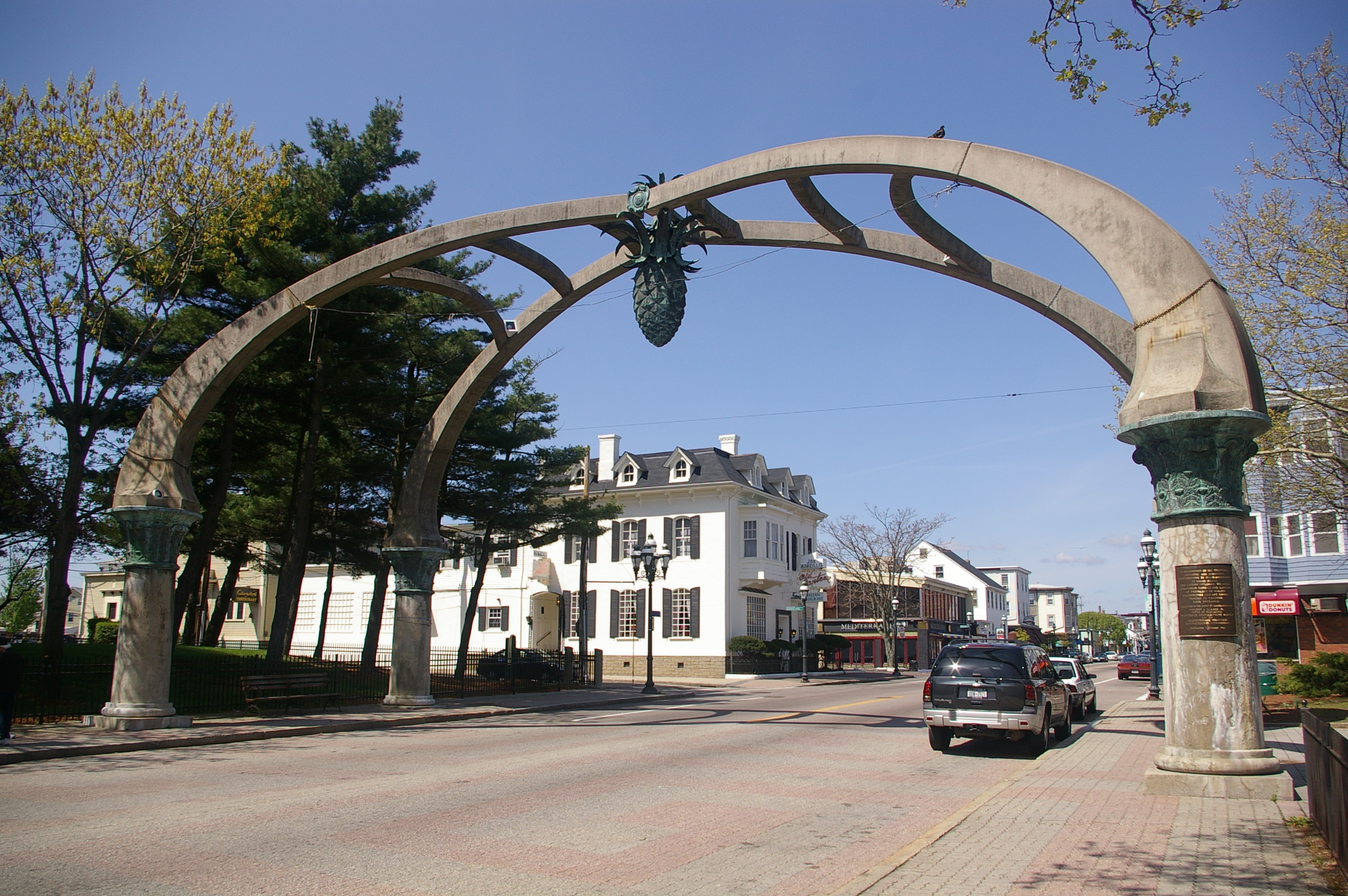 Federal Hill neighborhood gateway arch with "la pigna" (pine cone, sometimes mistakenly called "pineapple") sculpture over Atwells Avenue, Providence, Rhode Island